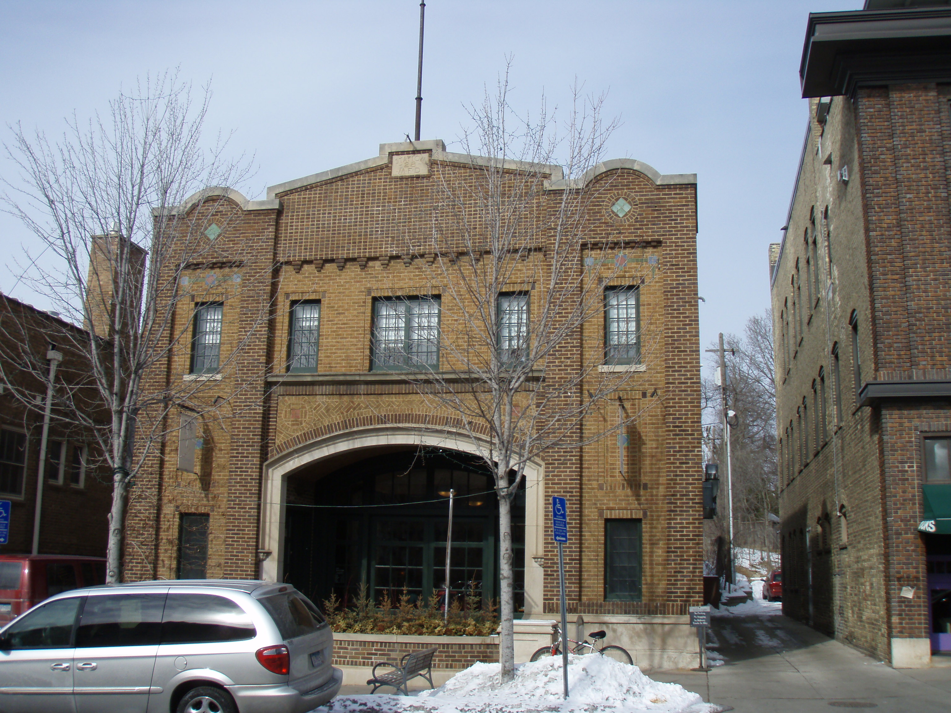 Station 28 Minneapolis Fire Department in Minneapolis, Minnesota.